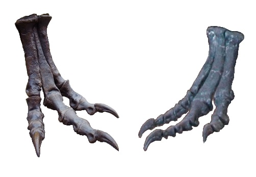 Tyrannosaurus rex (left) and Allosaurus atrox (right) feet, not to scale